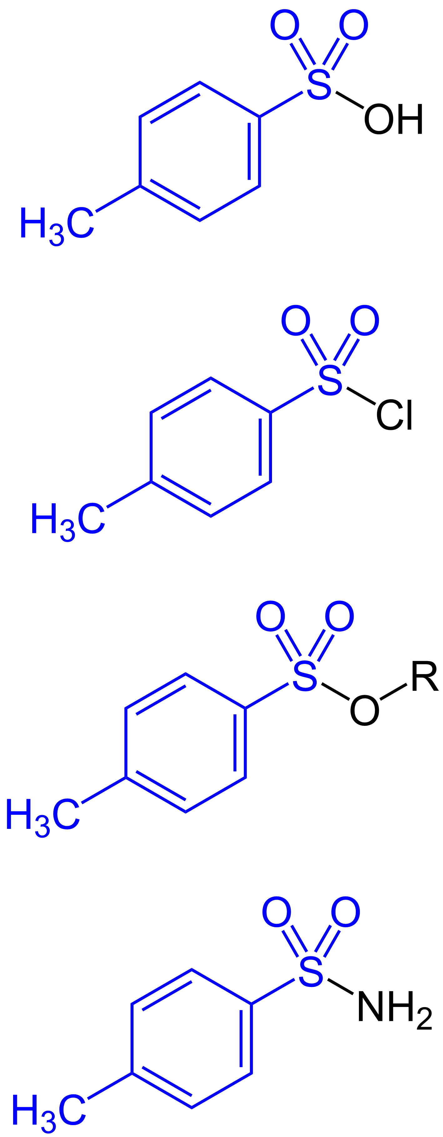 Tosyl_Group_General_Formulae